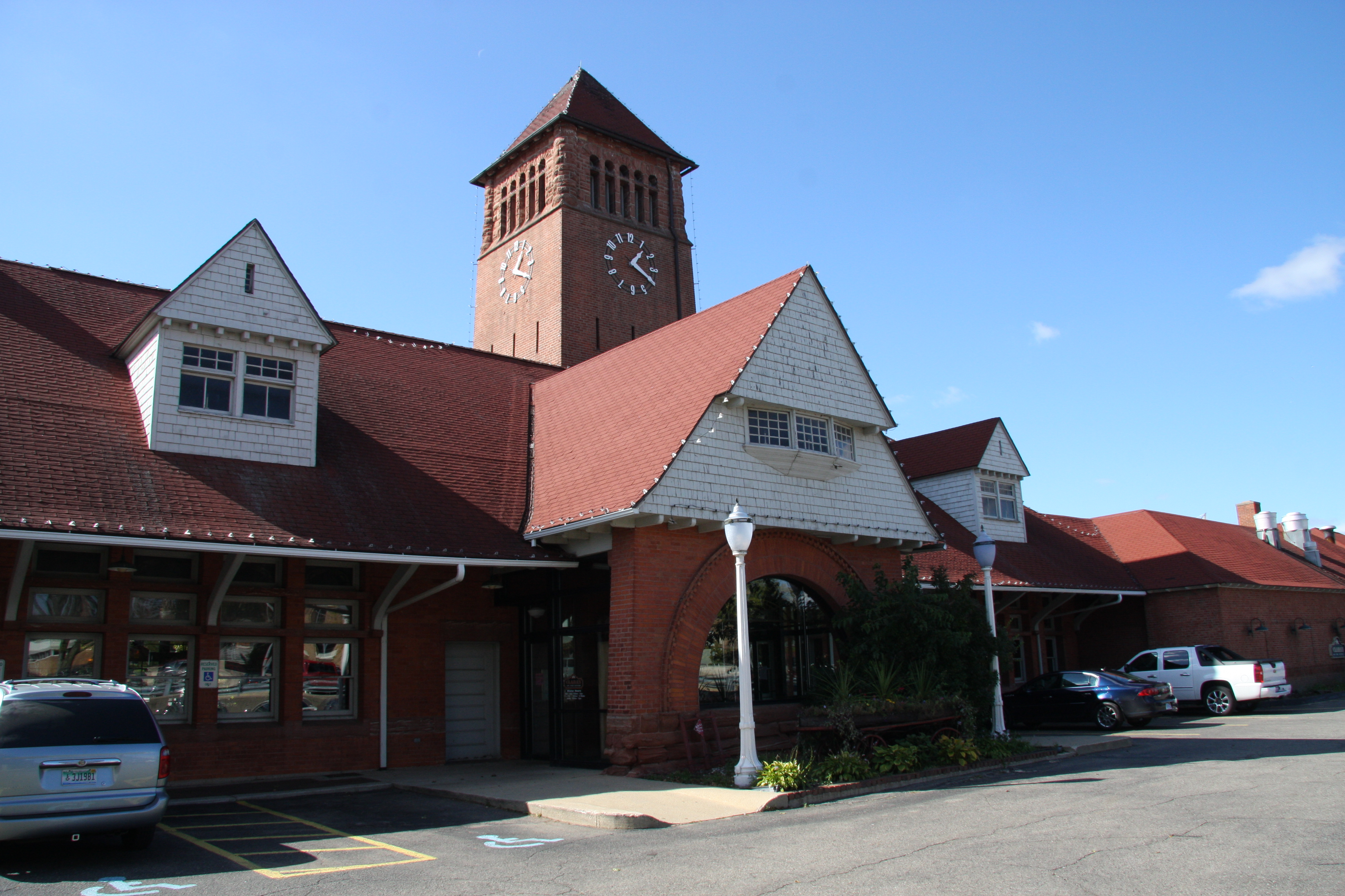 Former Michigan Central Depot, Battle Creek, MI. Now Clara's on the River Restaurant.